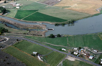 Lost River Diversion Dam built in 1912 by the U.S. Bureau of Reclamation as part of the Klamath River Project in the state of Oregon